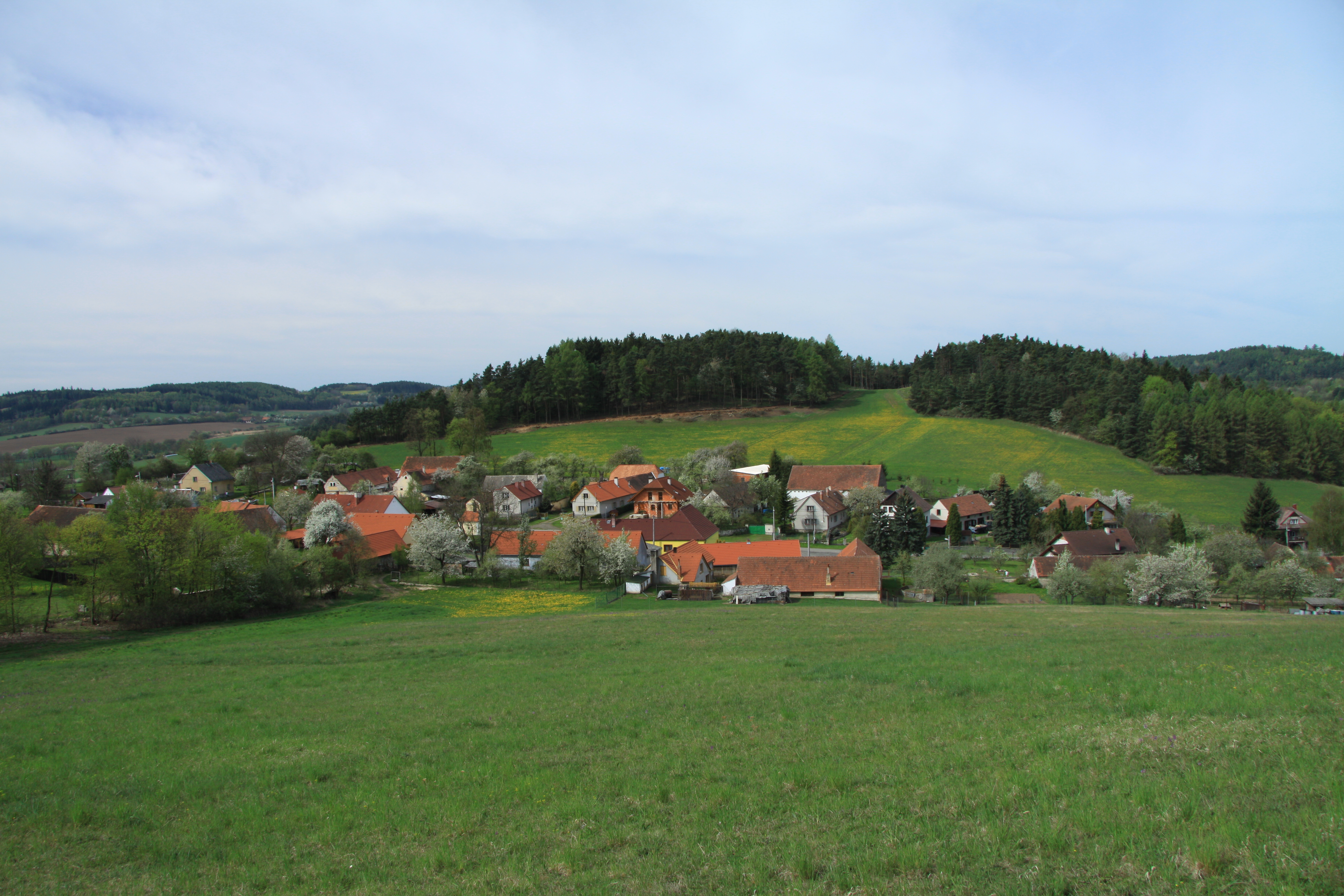 Svaté Pole near Horažďovice from view of the natural monument Svaté Pole in Klatovy District, Czech Republic Project: Chráněná území.